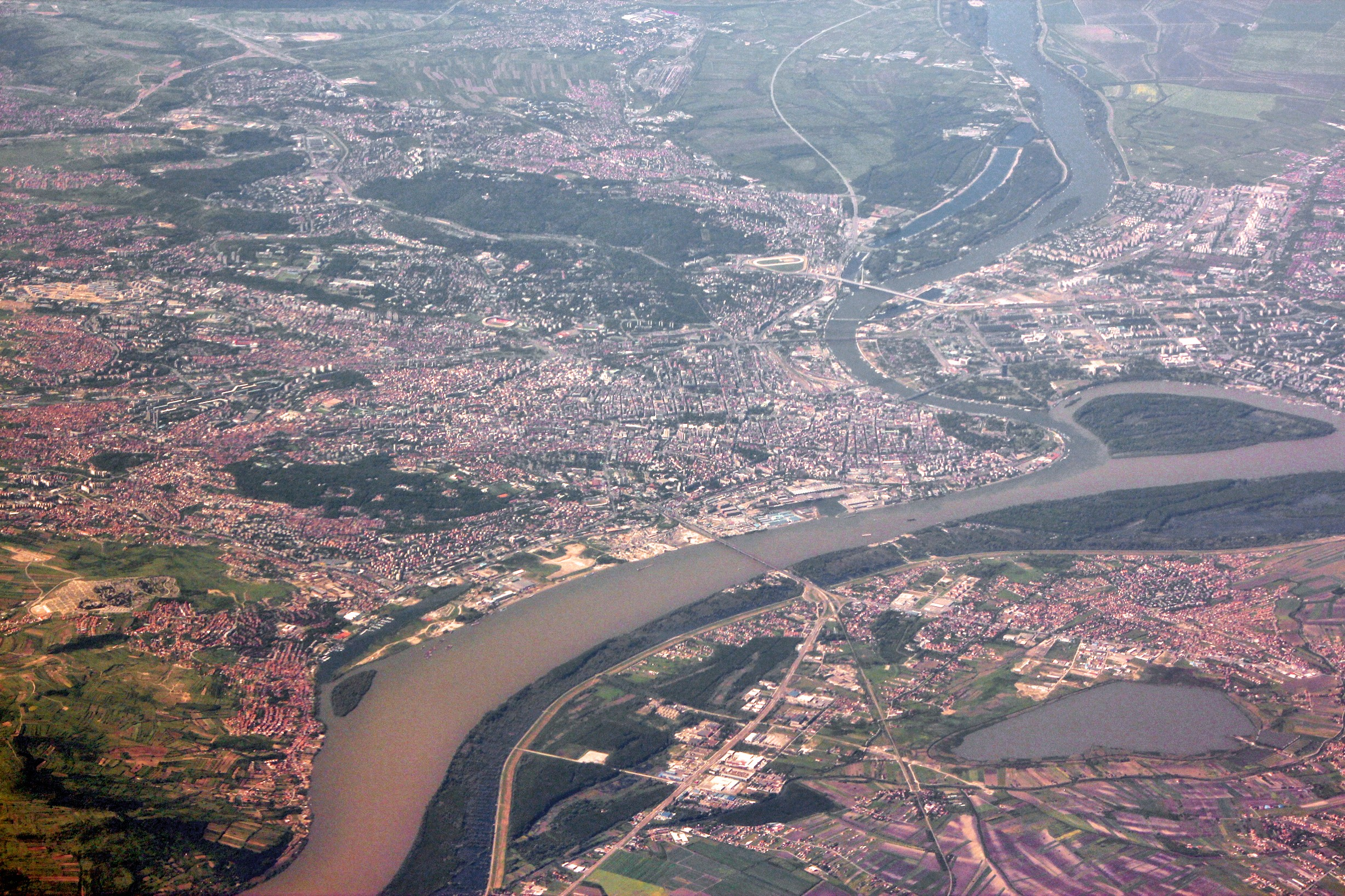 Belgrade, Serbia. View with Sava River confluence with Danube.